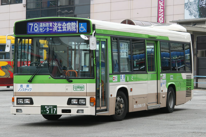 Toyama Chiho Railway's route bus (Hino Rainbow HR PB-HR7JHAE / J-BUS body) in front of Toyama Station South Exit, Toyama, Toyama, Japan